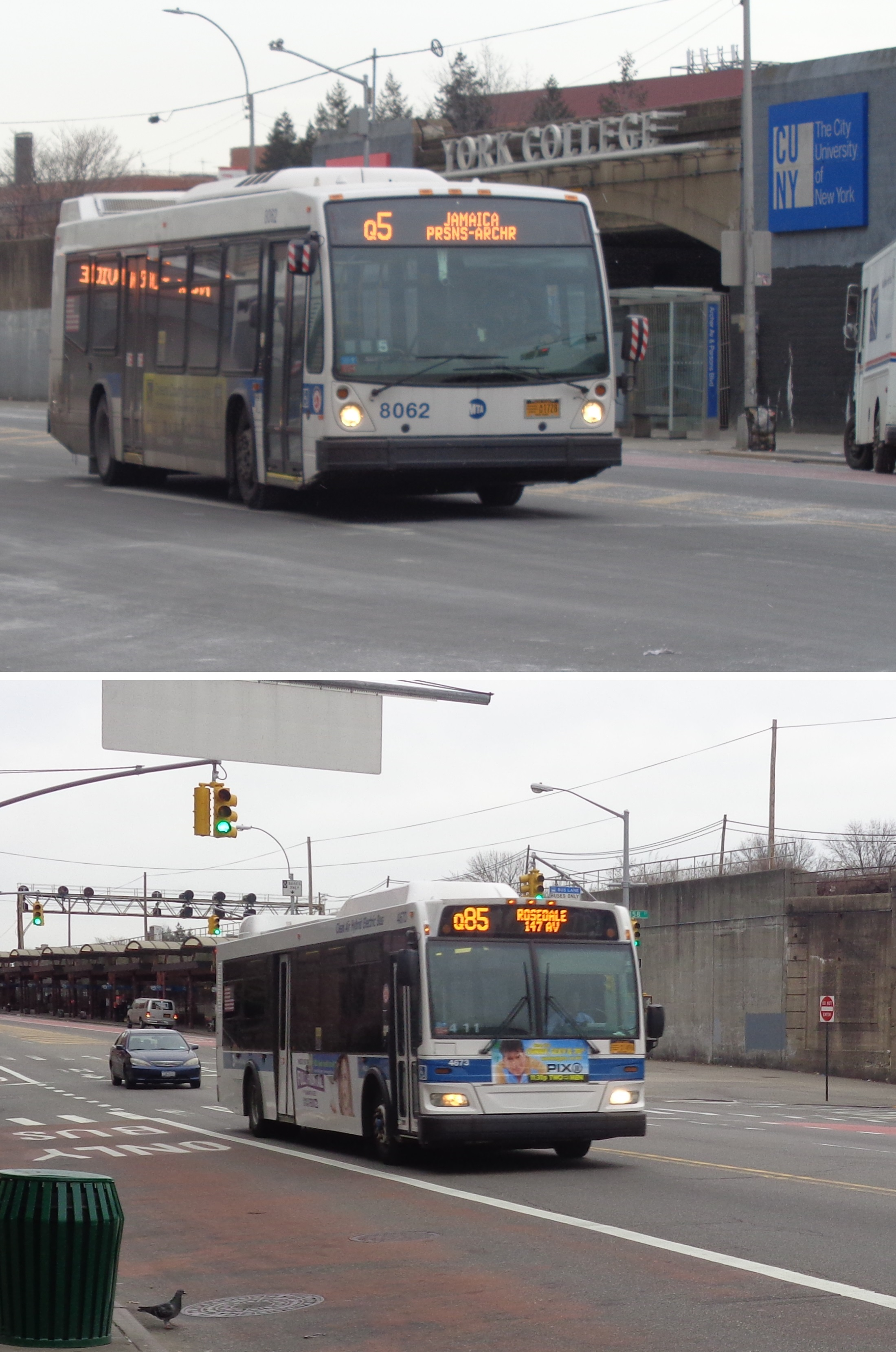 A Q5 bus (top) and Q85 (bottom) across from the Jamaica Center Bus Terminal in Queens.